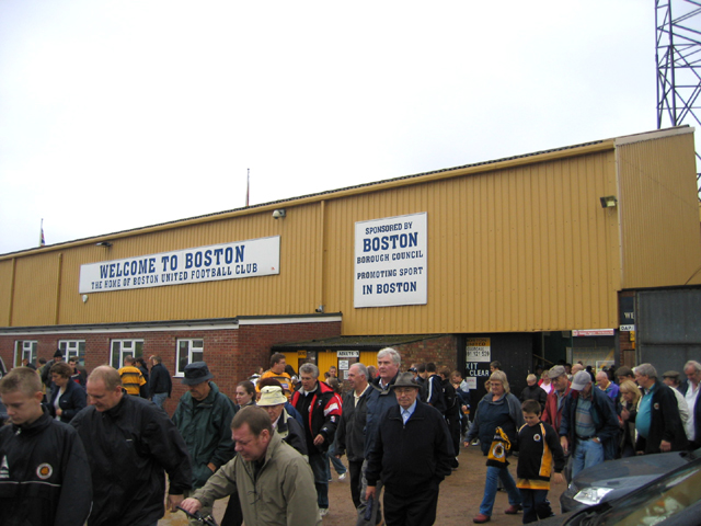 York Street, Boston, home of Boston United. Another three points – Boston United 3 Rochdale 2.